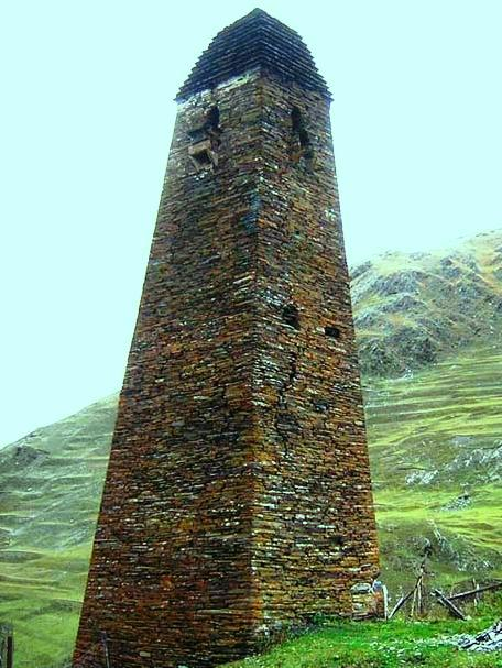 Tusheti province of Georgia: A combat tower